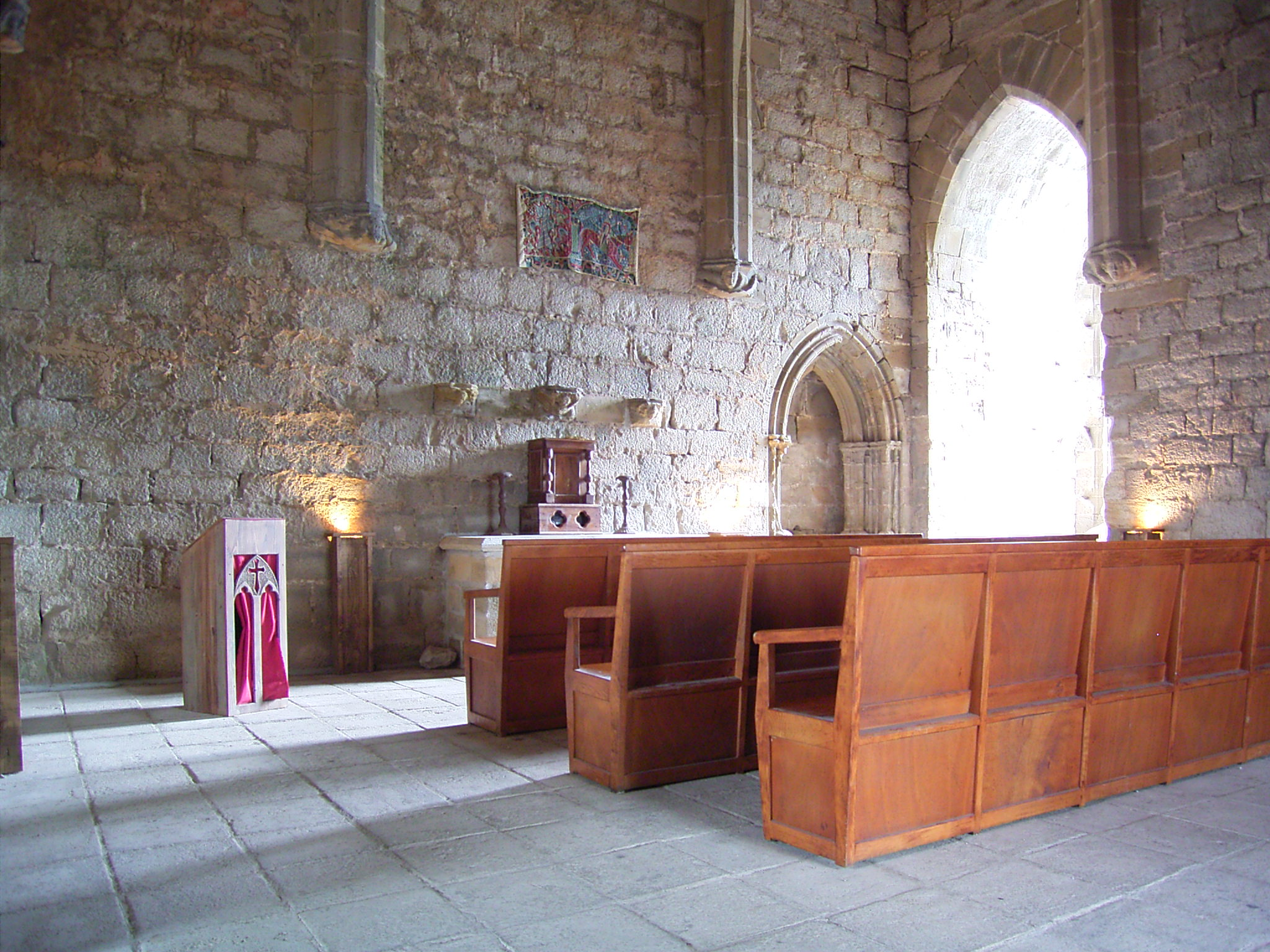 Chapel of the castle of Puivert, France